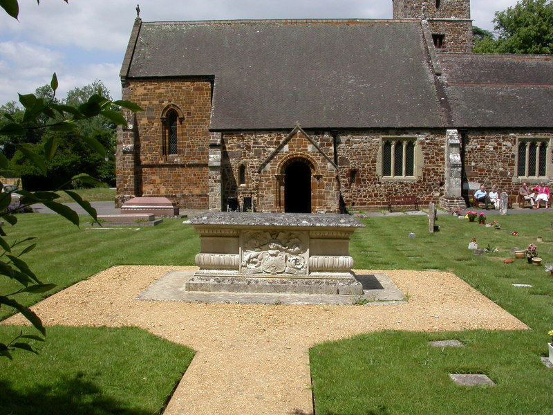 Canford Magna, tomb, near to Canford Magna, Poole, Great Britain. For Sir Ivor Bertie Guest, occupant of Canford House, died 1914; holding public positions in Dorset, Glamorgan and Ross-shire, so a wide-ranging gentleman. In the background, the parish church.